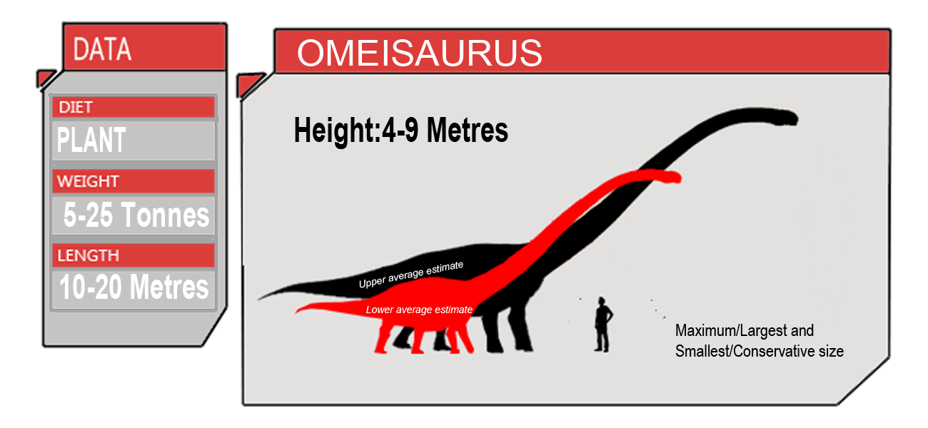 Omeisaurus Size